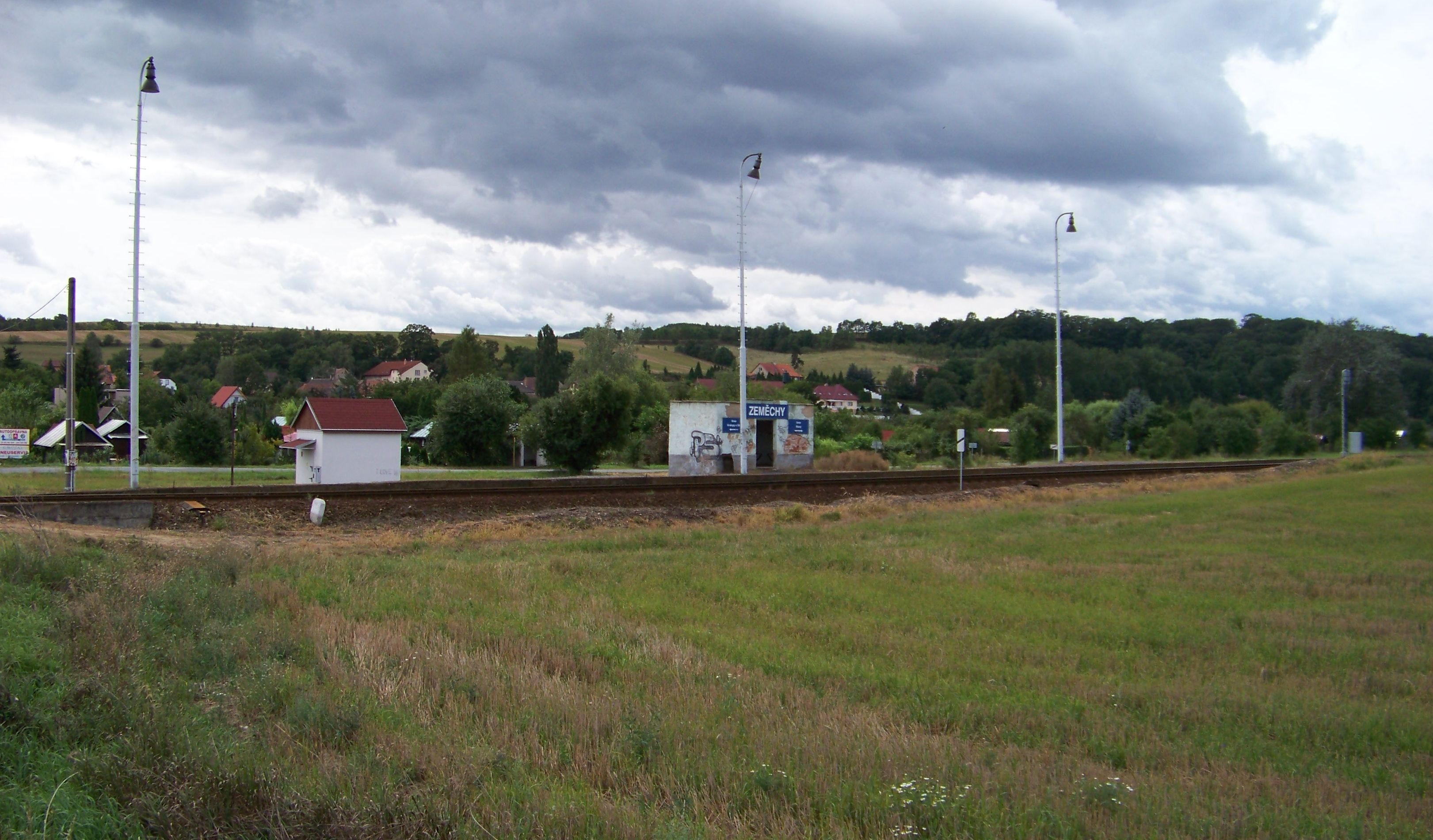 Kralupy nad Vltavou-Zeměchy, Mělník District, Central Bohemian Region, the Czech Republic. A train stop. - OpenStreetMap(Info)